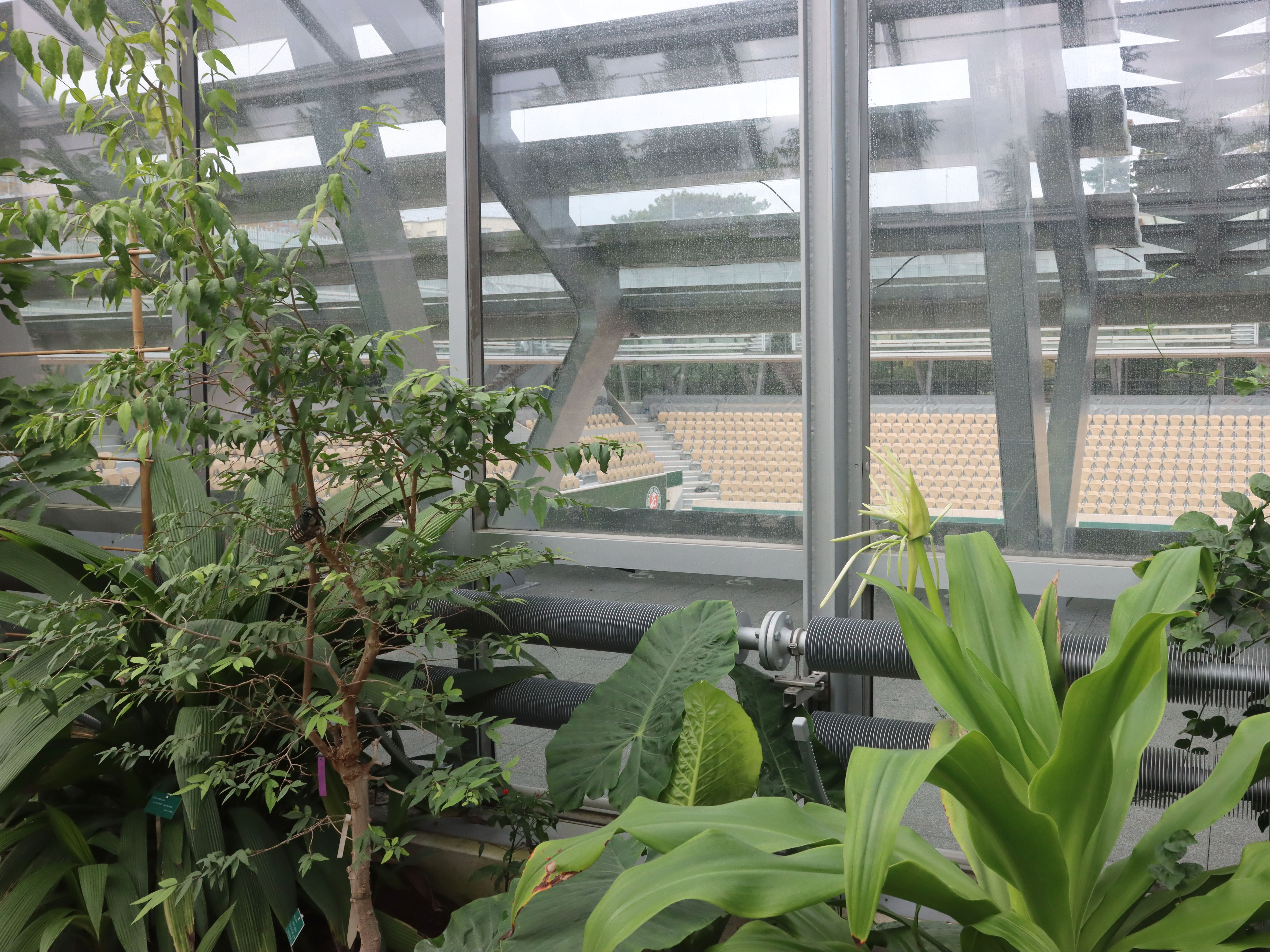 New tennis court in Roland-Garros, seen from the tropical greenhouse.